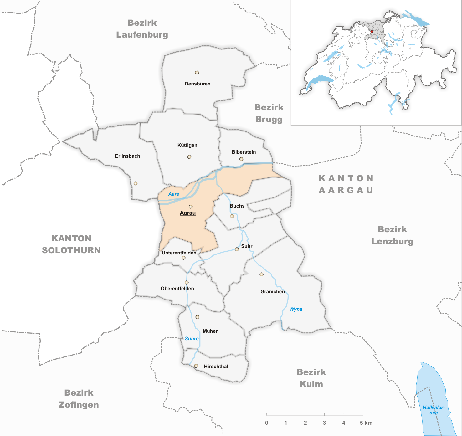 Municipality Aarau